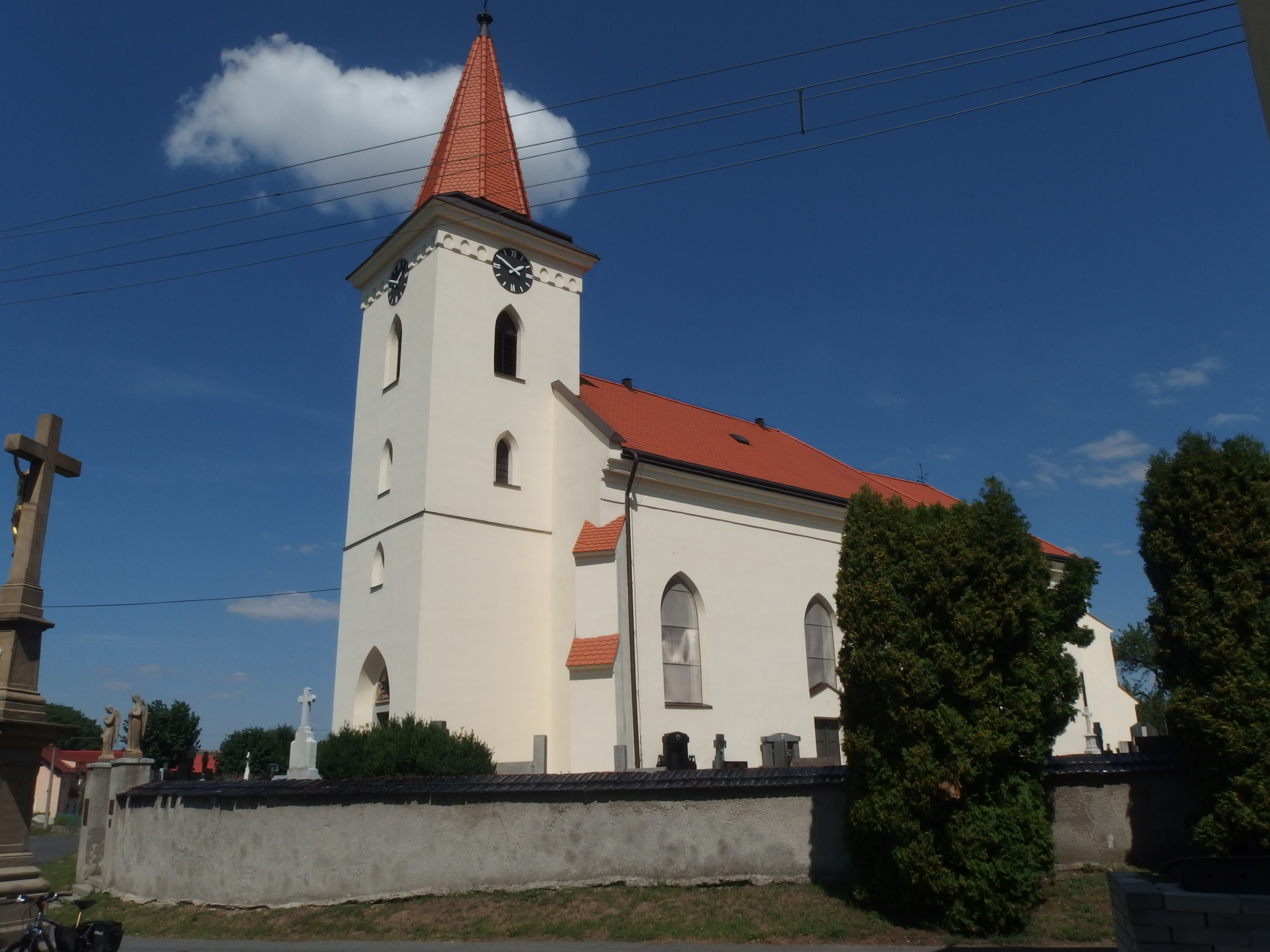 Špičky, Přerov District, Czech Republic. Church of Saints Simon and Jude.